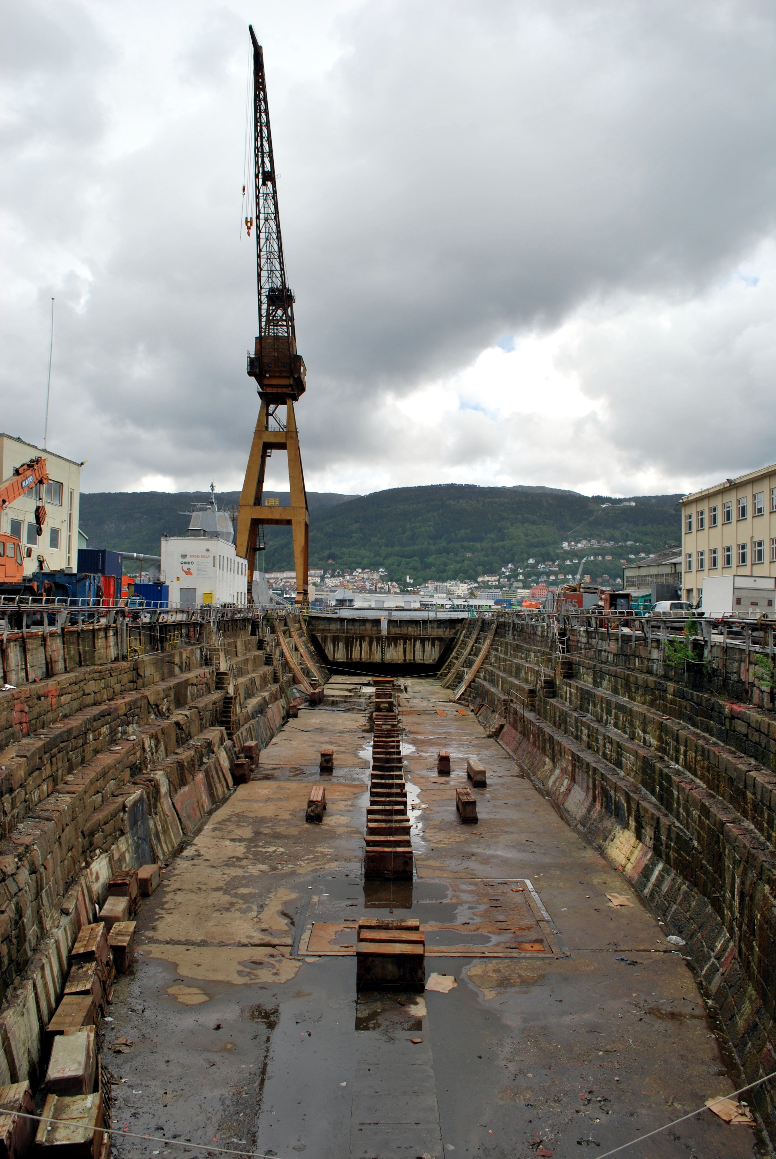 Dry dock at Bergen Group Laksevåg, formerly Laksevåg Verft, at Lakesvåg in Bergen.